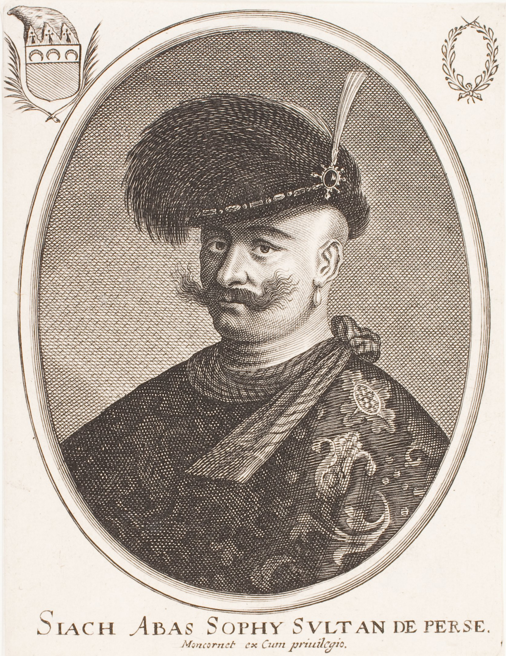 Shah Abbas II by Balthasar Moncornet